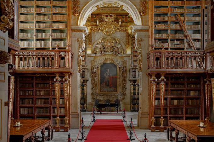 Interior of the Library. Portrait of King John V of Portugal by Domenico Dupra